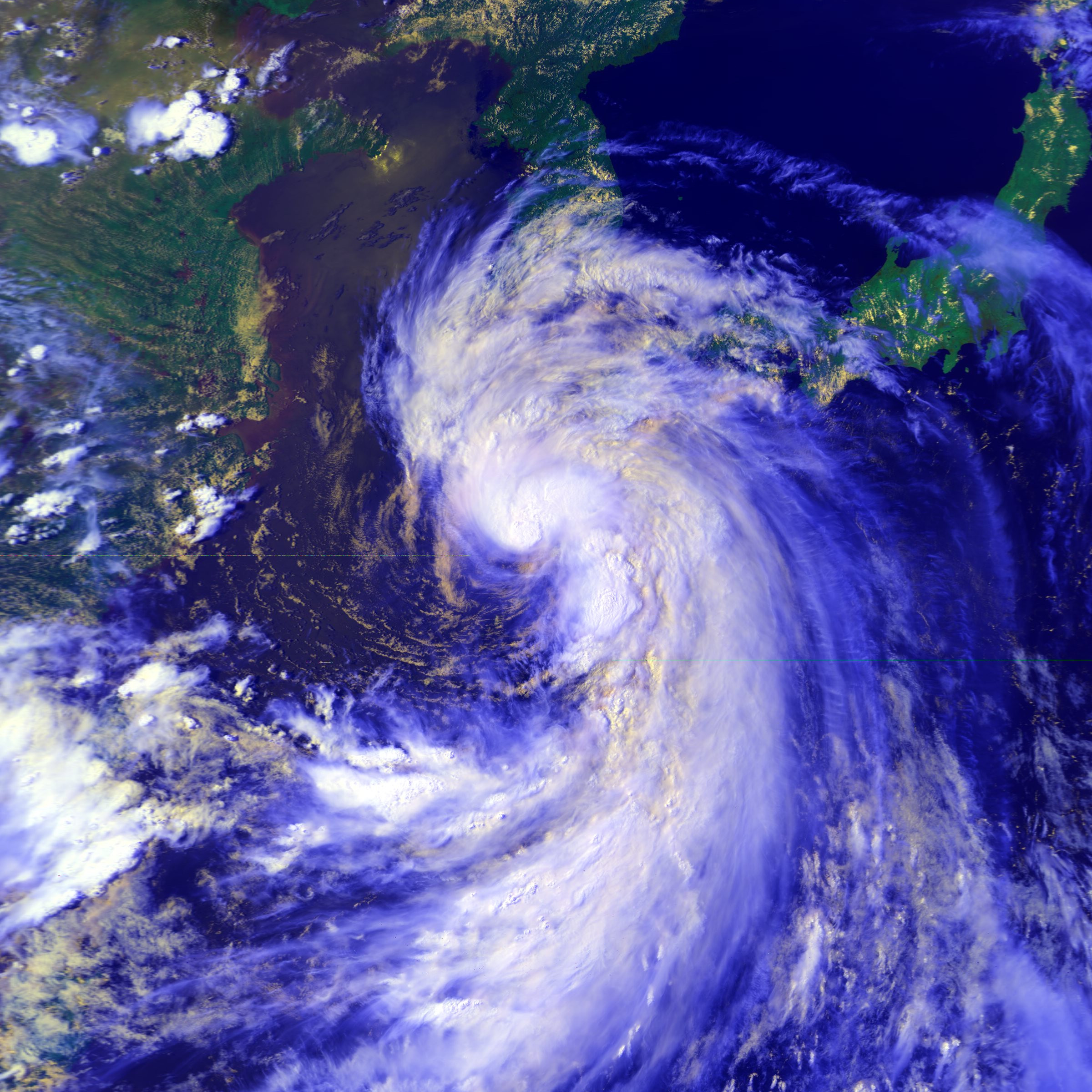 Tropical Storm Neil near peak intensity south of the Korean Peninsula on July 26, 1999